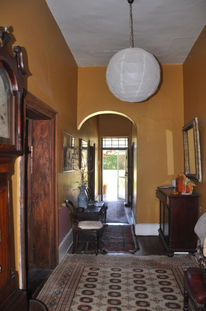 The Grange and Macquarie Plains Cemetery: Interior photo of the Grannge farmhouse's hallway, view from south towards north entrance doorway with rectangular lighting details.